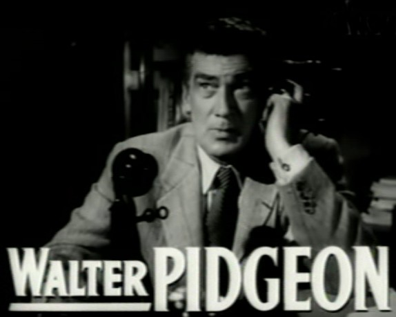 Cropped screenshot of Walter Pidgeon from the trailer for the film The Bad and the Beautiful (1952).